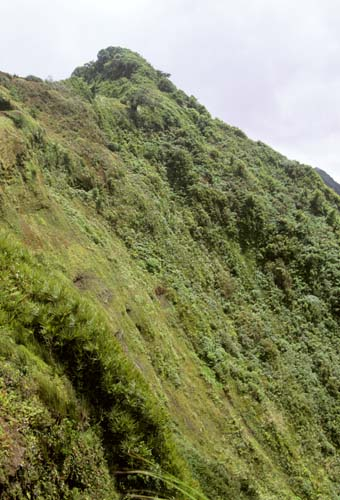 Mont Tekao (1224 m), Nuku Hiva, Marquesas, French Polynesia